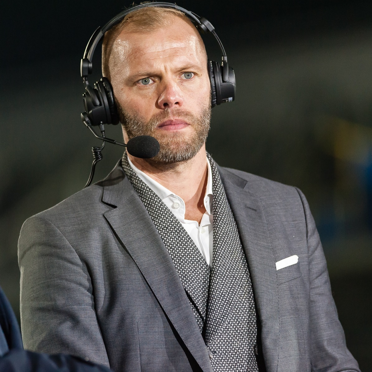 Eiður Guðjohnsen being interviewed during a game between FC Rostov and PFC CSKA Moscow.